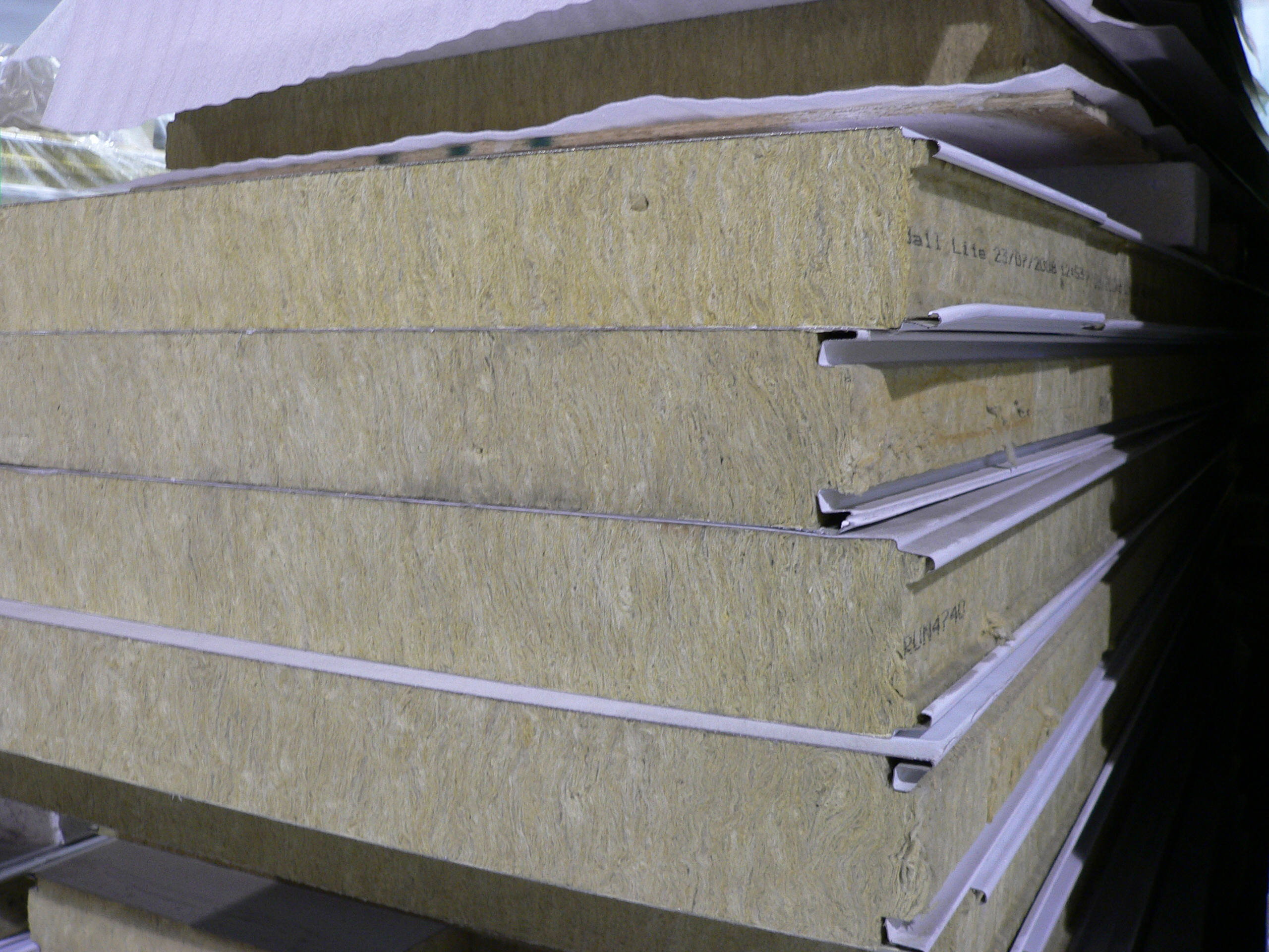 Durawall fire separation panels consisting of steel and rockwool.